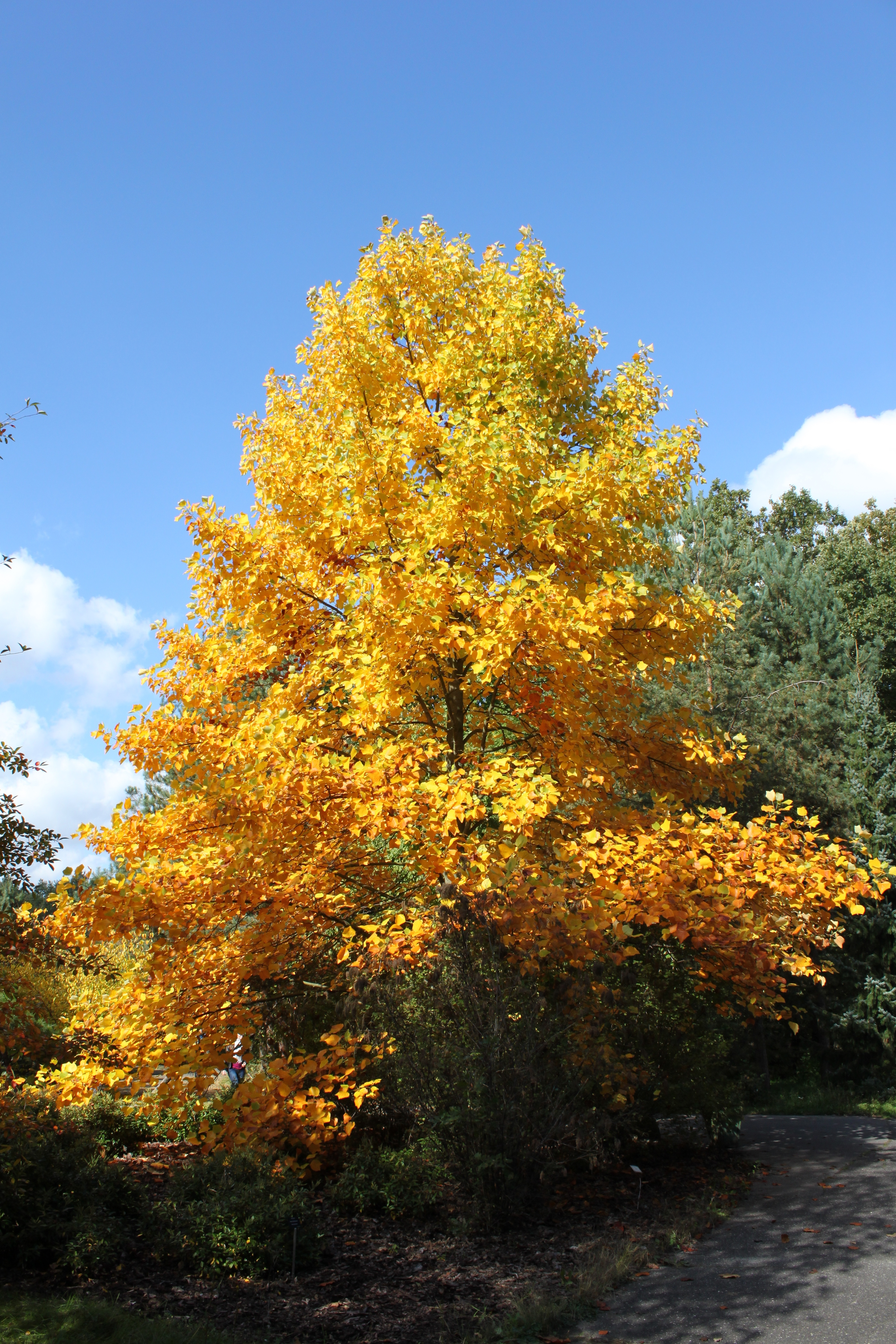 American tulip tree (Liriodendron tulipifera) in autumn in PAN Botanical Garden in Warsaw, Poland